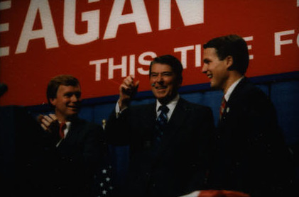 President Ronald Reagan at a campaign rally for Dan Quayle and Rick McIntyre